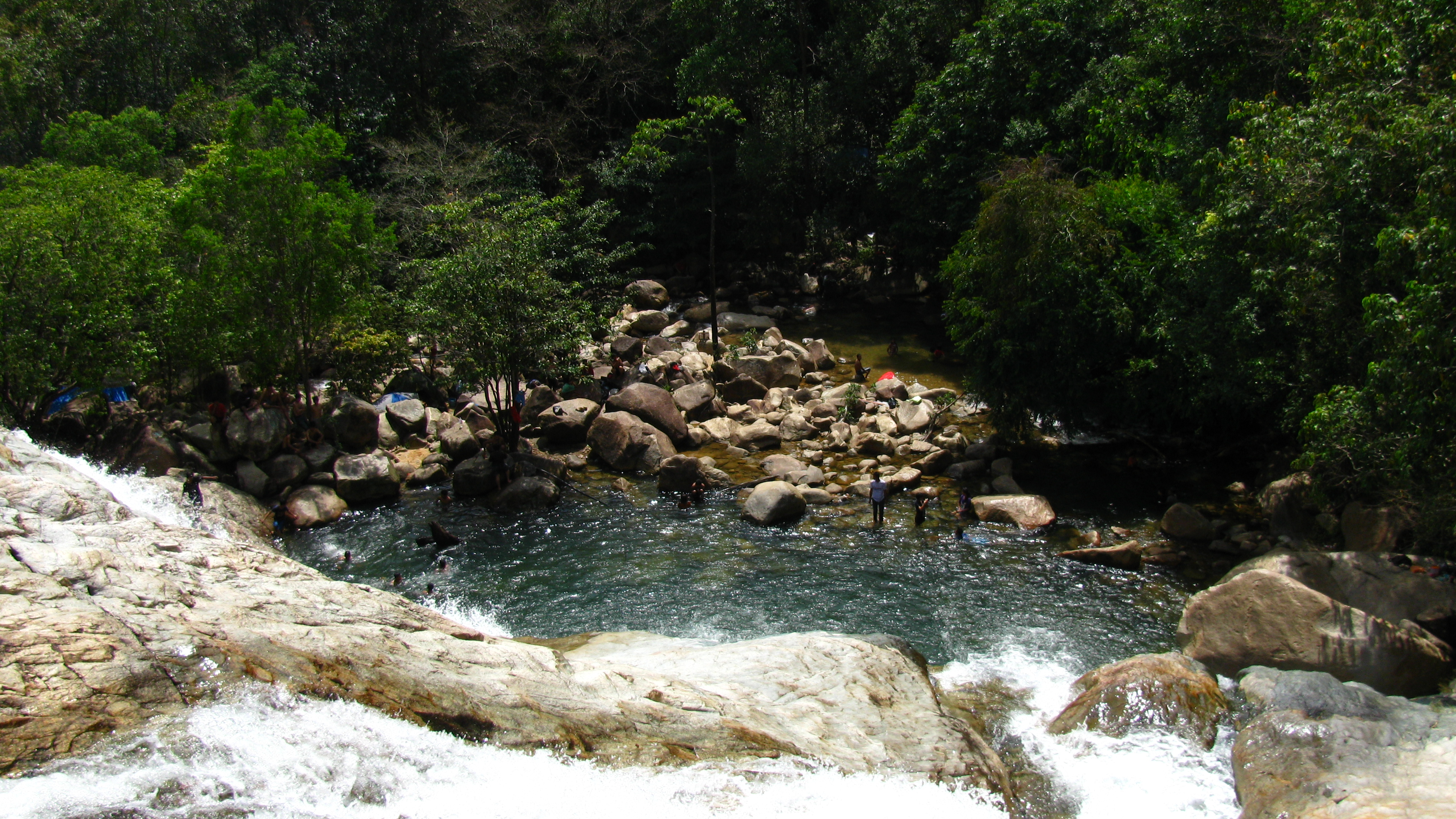 Berkelah Falls, first tier. Snapped from the second tier.